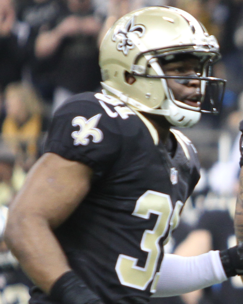 New Orleans Saints vs Carolina Panthers, December 6, 2015, Tammy Anthony Baker, Photographer